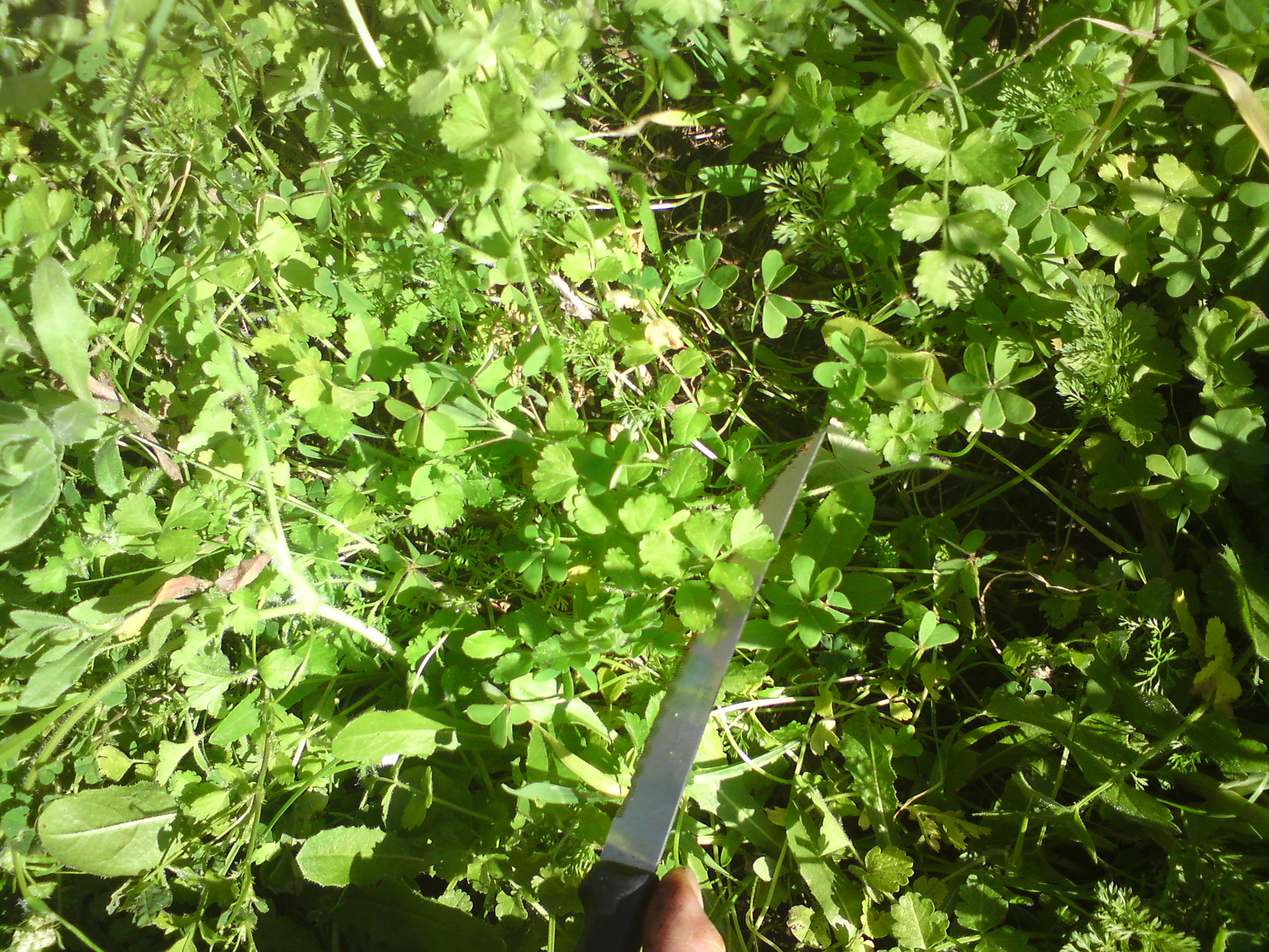 Tordylium apulum, or "Kafkalithra" in Greek (on the knife).